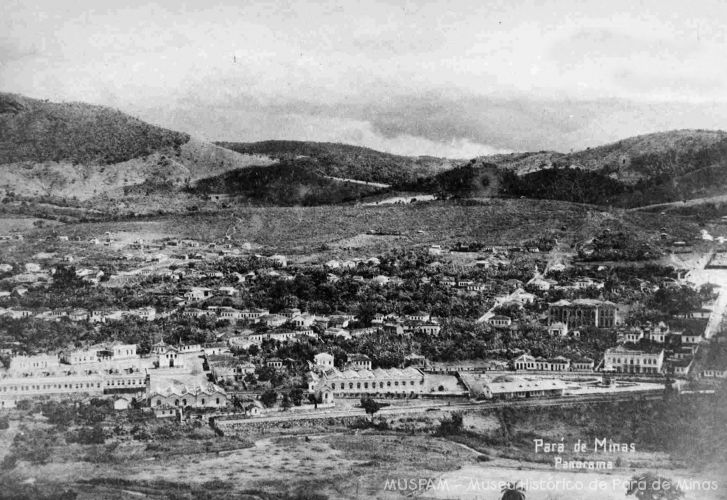 Partial view of Pará de Minas, Minas Gerais, Brazil, in 1926.